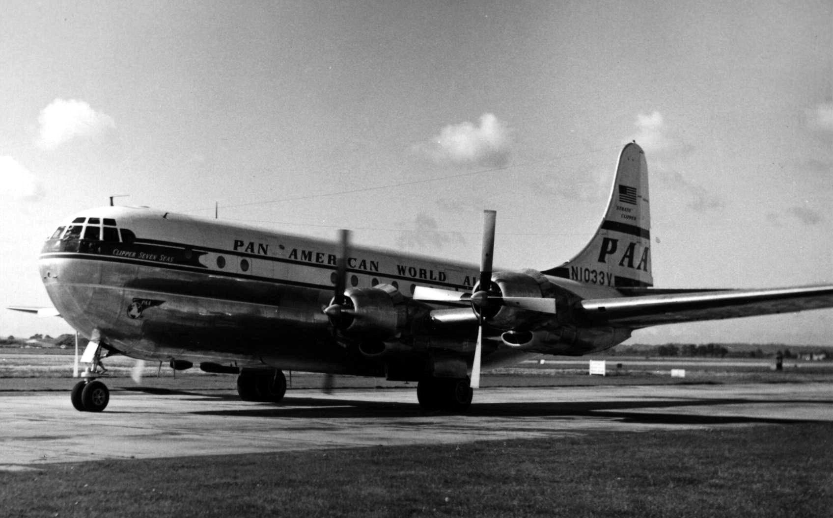 Pan American World Airways Boeing 377 Stratocruiser N1033V "Clipper Seven Seas" arriving at London (Heathrow)